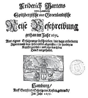 Book cover of "Spitzbergische oder Groenlandische Reise-Beschreibung, gethan im Jahre 1671", by Friderich Martens, published 1675 in Hamburg